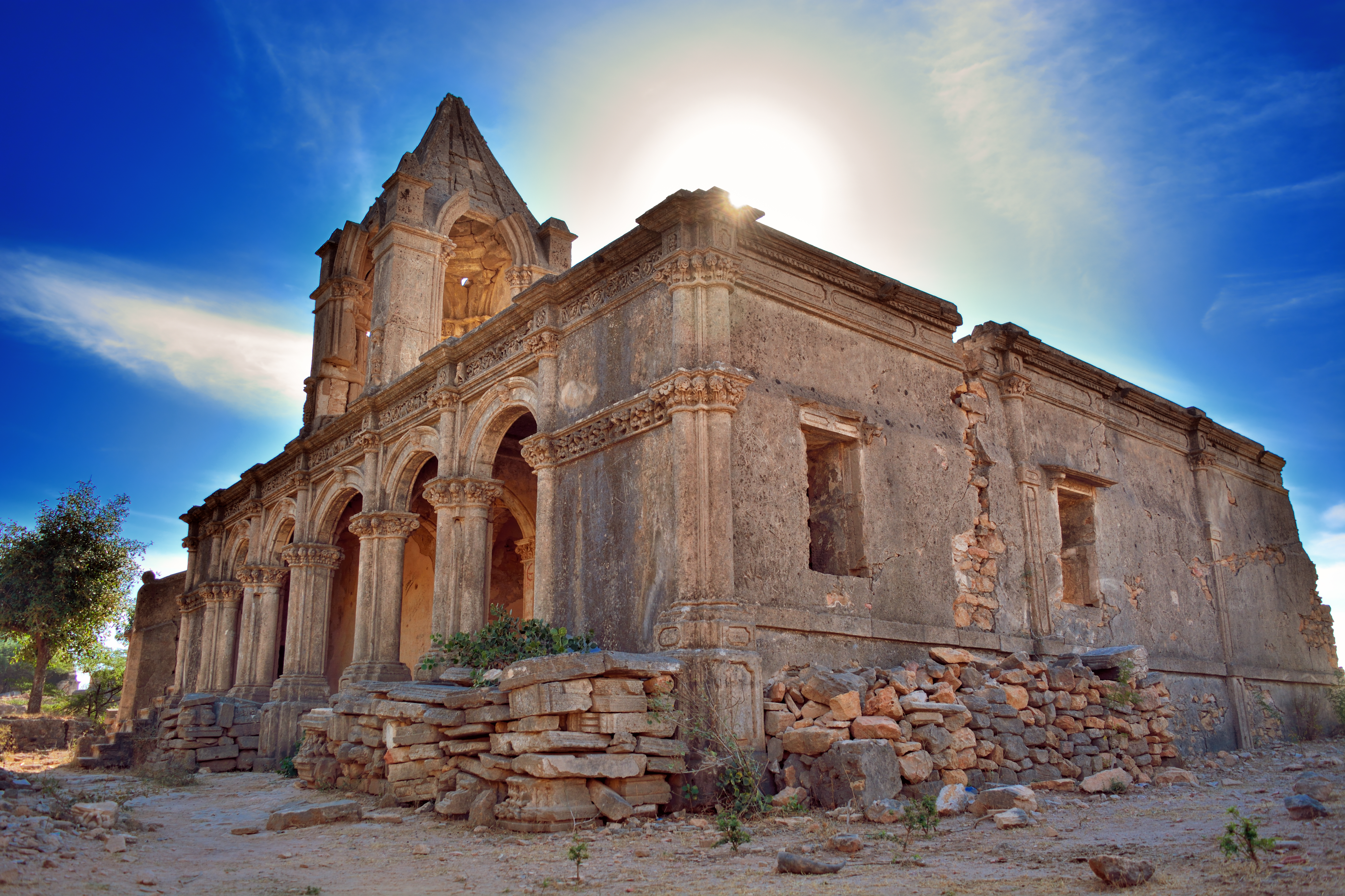 Historical Place Roha fort placed in Kutch District, Near Nakhatrana Taluka.